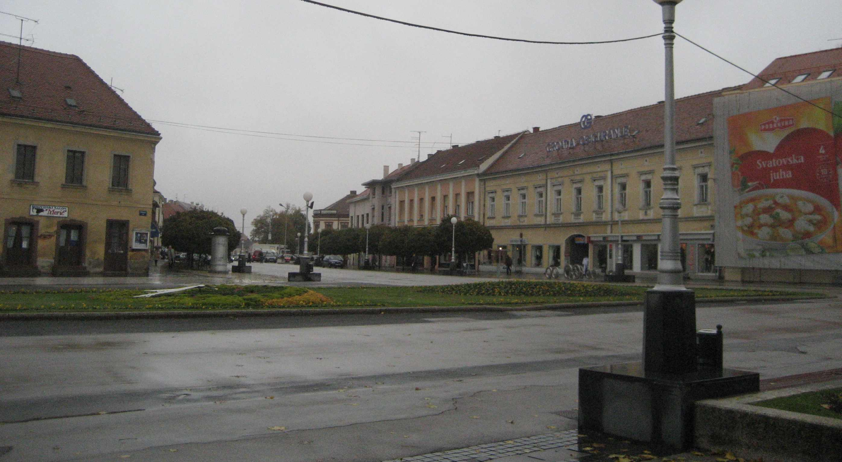 City Centre of Koprivnica, Croatia, D41 road (Croatia), and D2 road (Croatia)??